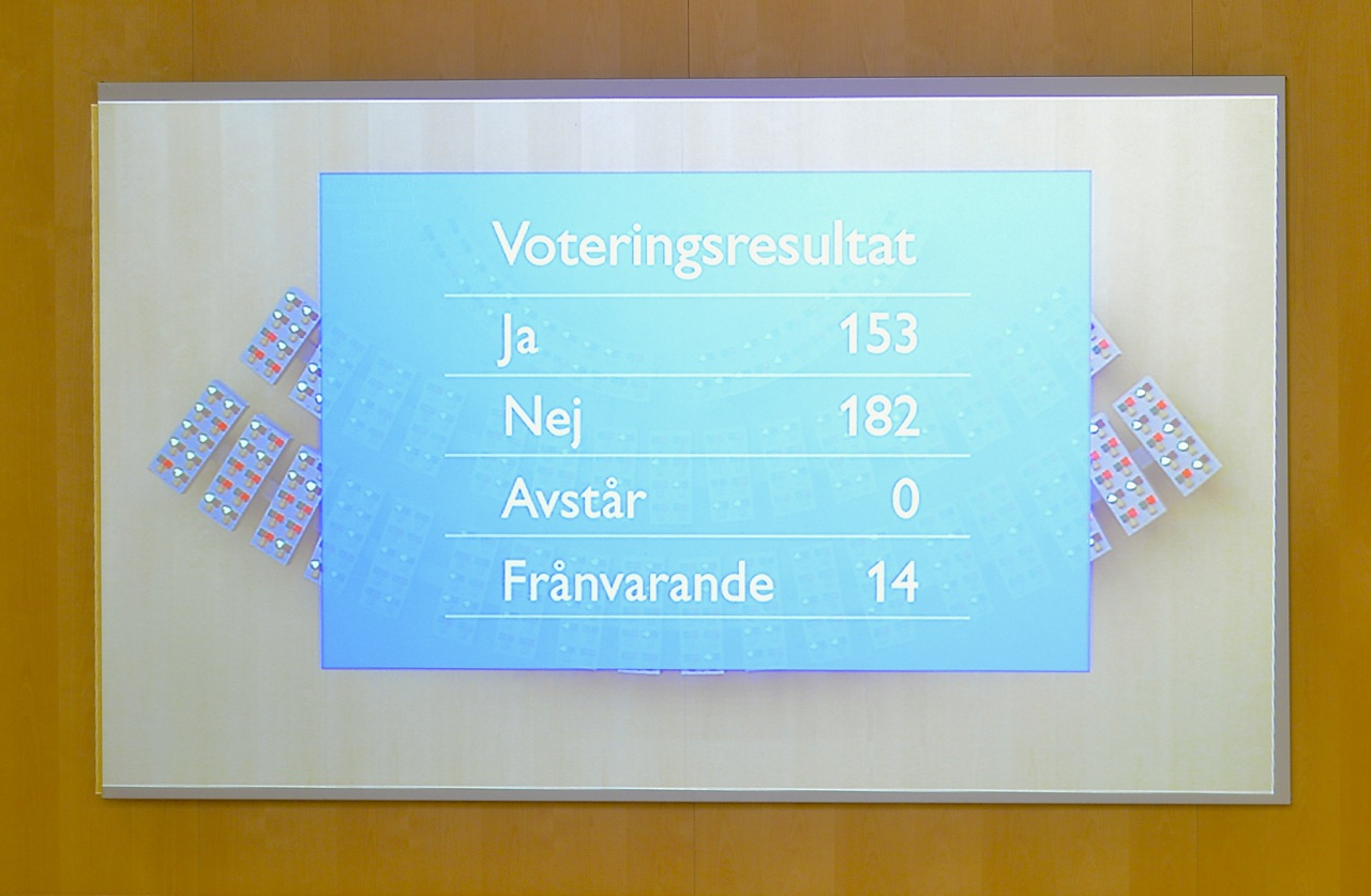 The government's budget fell. The Riksdag voted for the Alliance's proposal on 3 December 2014 with the numbers 182 against the 153 yes.